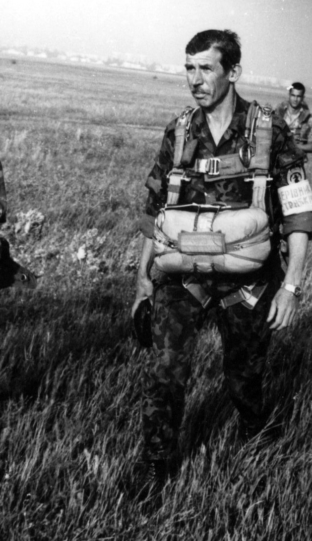 commander of the 7th Brigade special operations forces of Ukrainian Navy сaptain Anatoliy Karpenko